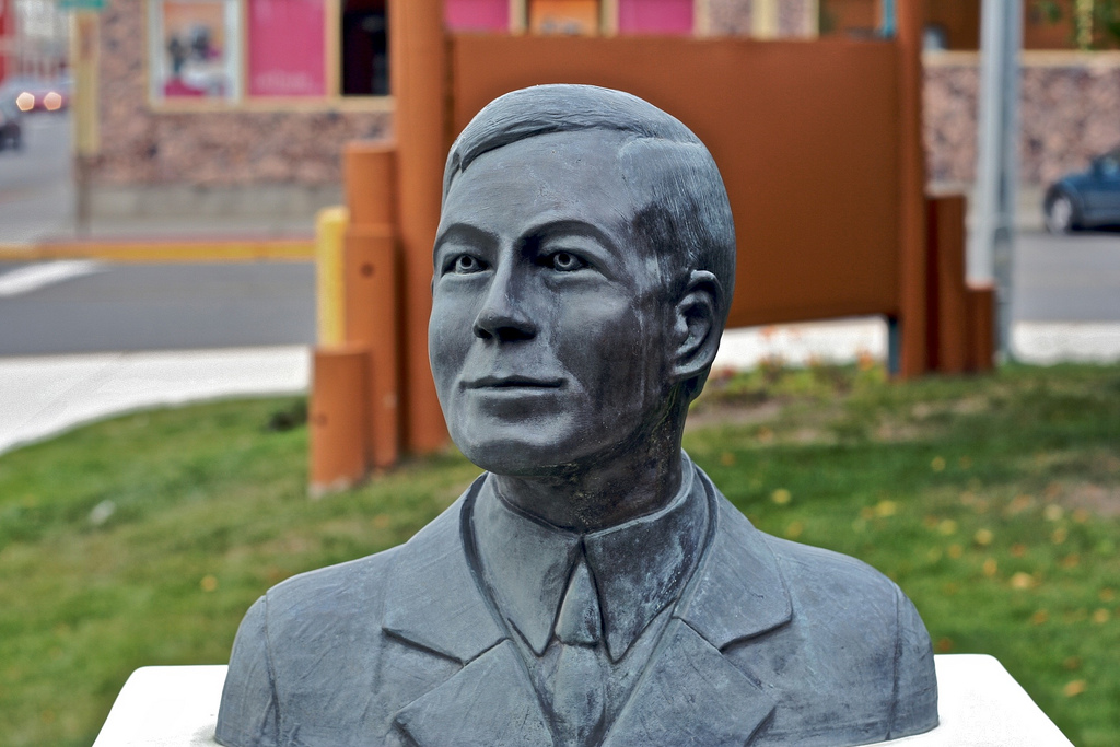 A bust of the bard of the Yukon